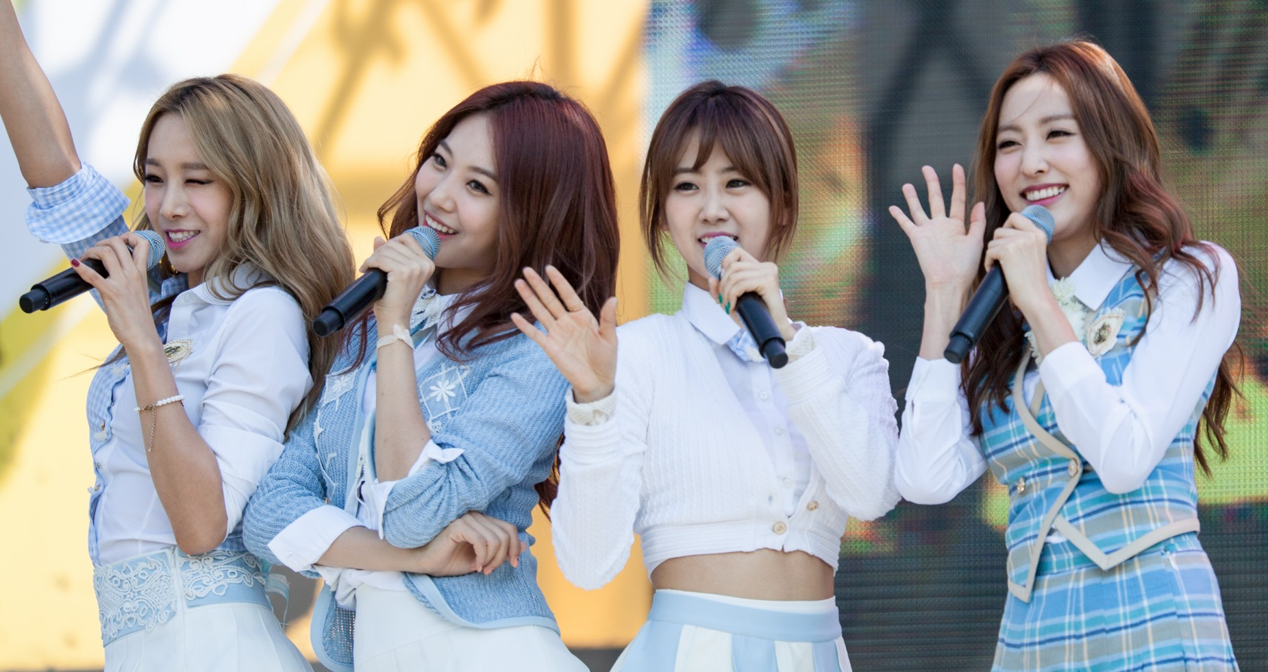 BESTie at Korea Defense Daily, 20 September 2014. Left to right: UJi, Dahye, Hyeyeon, Haeryung.